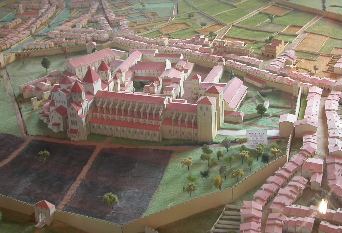 Model of the former structure of Cluny Abbey